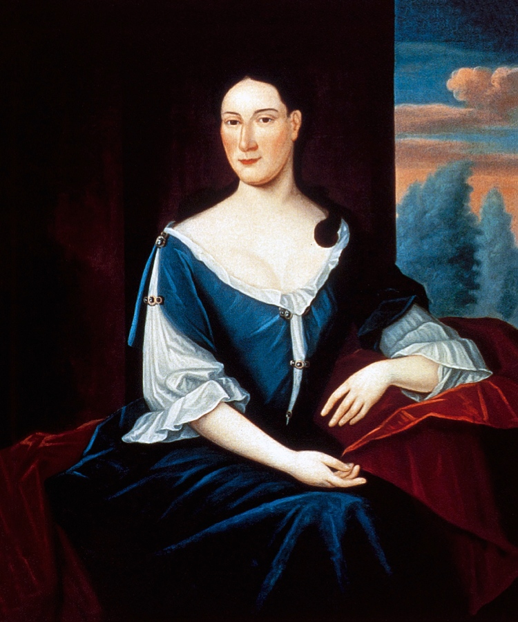 Portrait of Abigail Franks (c. 1696-1756), New York City. Painted circa 1735.